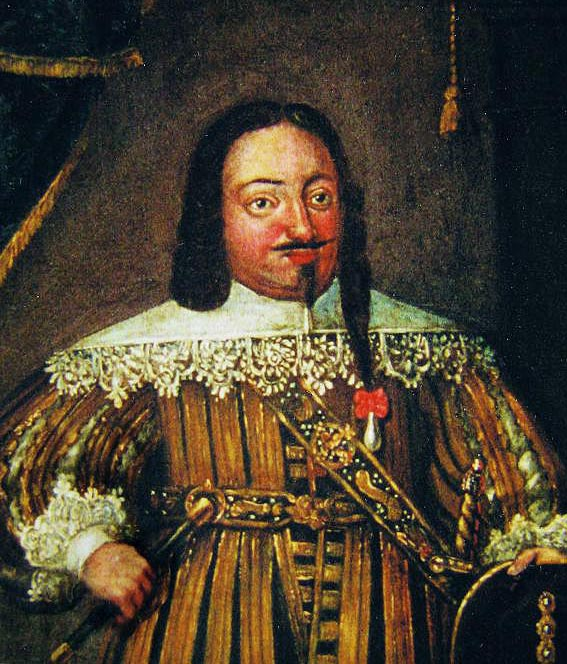 Friedrich Kettler, duke of Courland and Semigallia